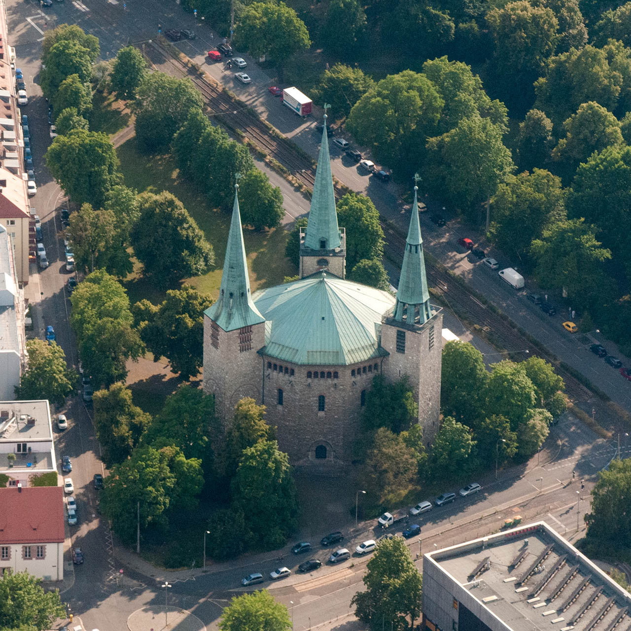 Aerial photography of the Reformations-Gedächtnis-Kirche in Nuremberg, Germany